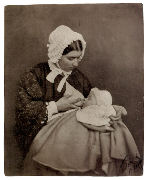 Paul Nadar and his nurse